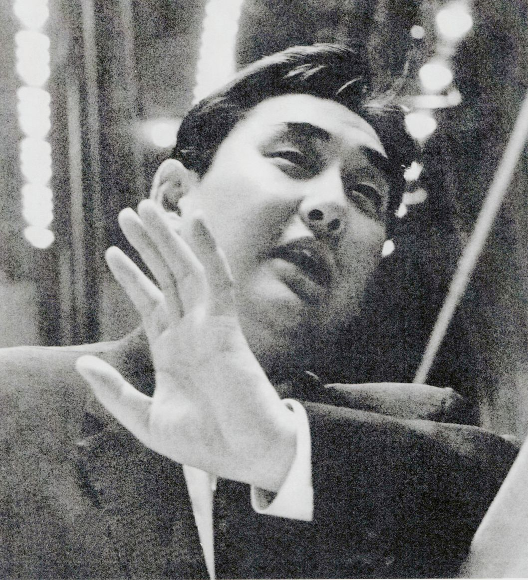 Keita Asari